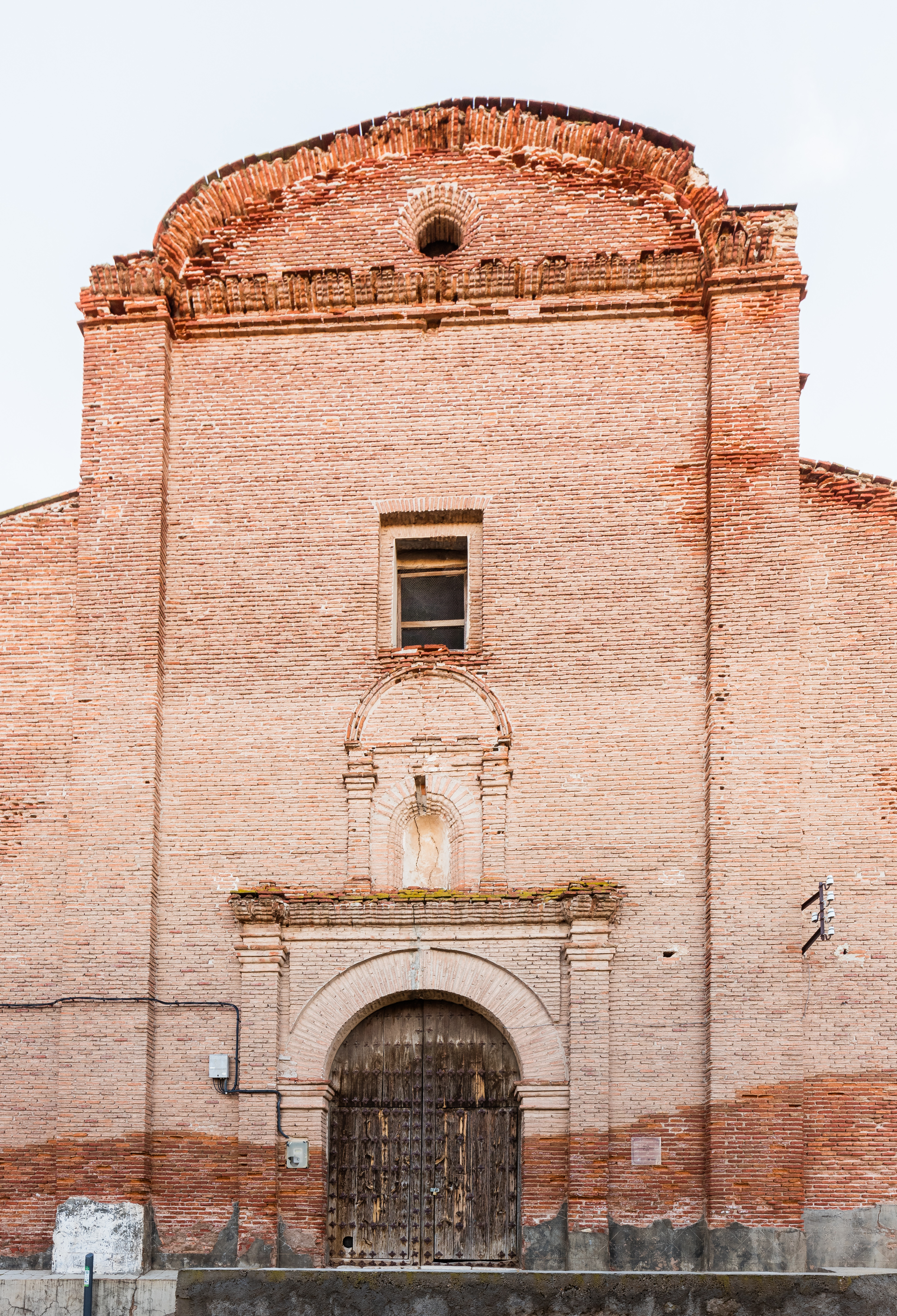 Church of James the Greater, Orera, Zaragoza, Spain